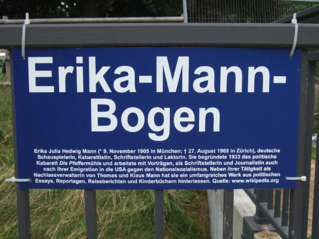 Road sign "Erika-Mann-Bogen" at Hamburg, citing Wikipedia as source